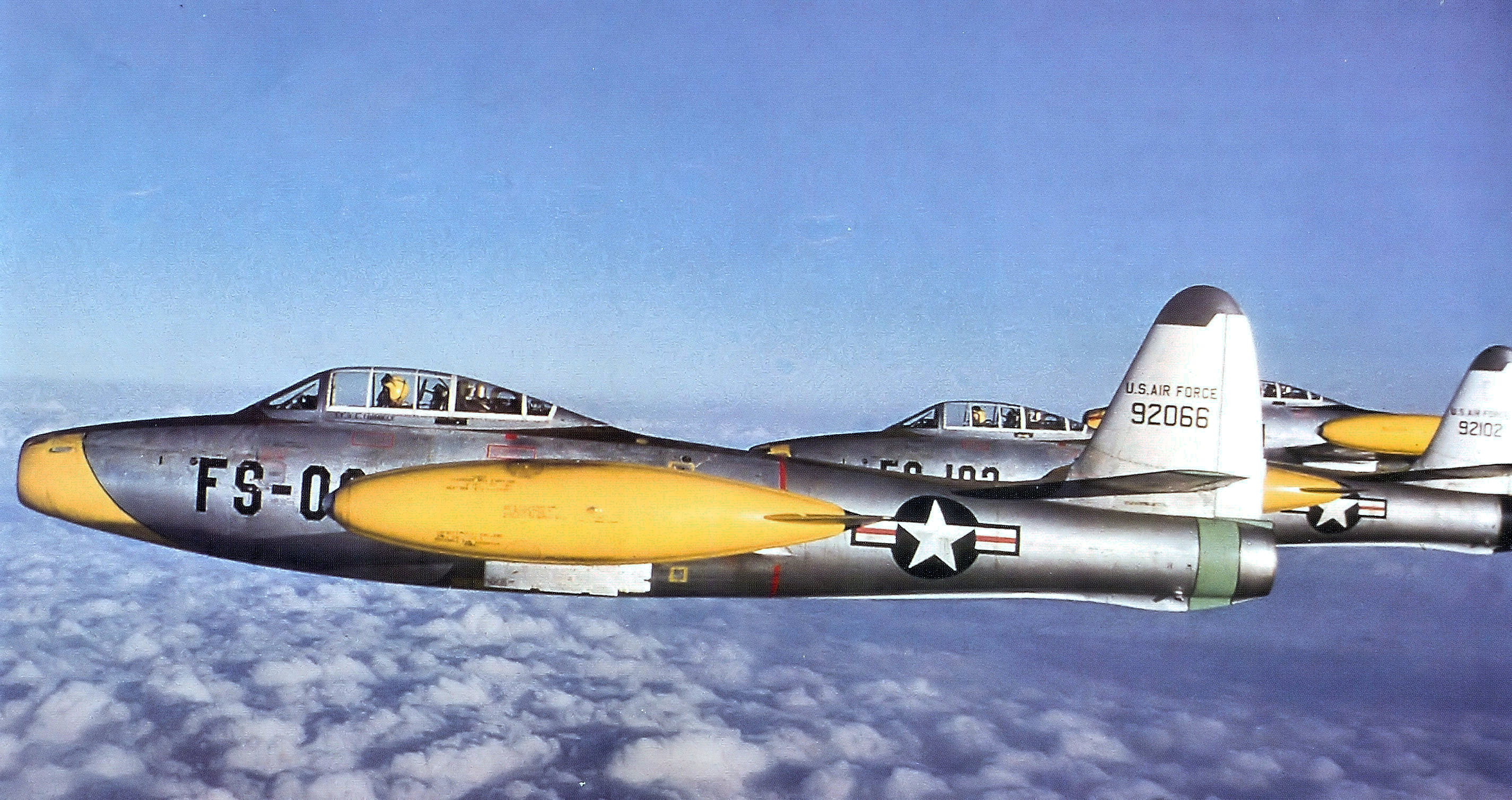 Republic F-84E-1-RE Thunderjet 49-2066. Aircraft was flown to RAF Manston, England in July 1951 by the 12th Fighter-Escort Wing. Was later flown by the 123d Fighter-Bomber Group and lastly 406th Fighter-Bomber Wing at Manston. Was then retired and sent to MASDC in Nov 1958